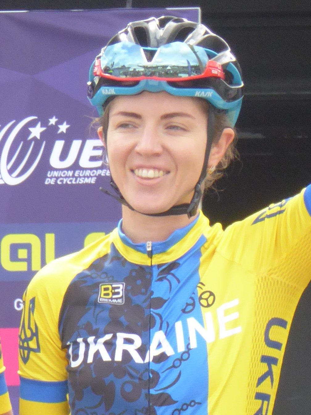 Tetyana Ryabchenko (Ukraine), prior to the women's road race at the 2018 UEC European Road Cycling Championships in Glasgow.